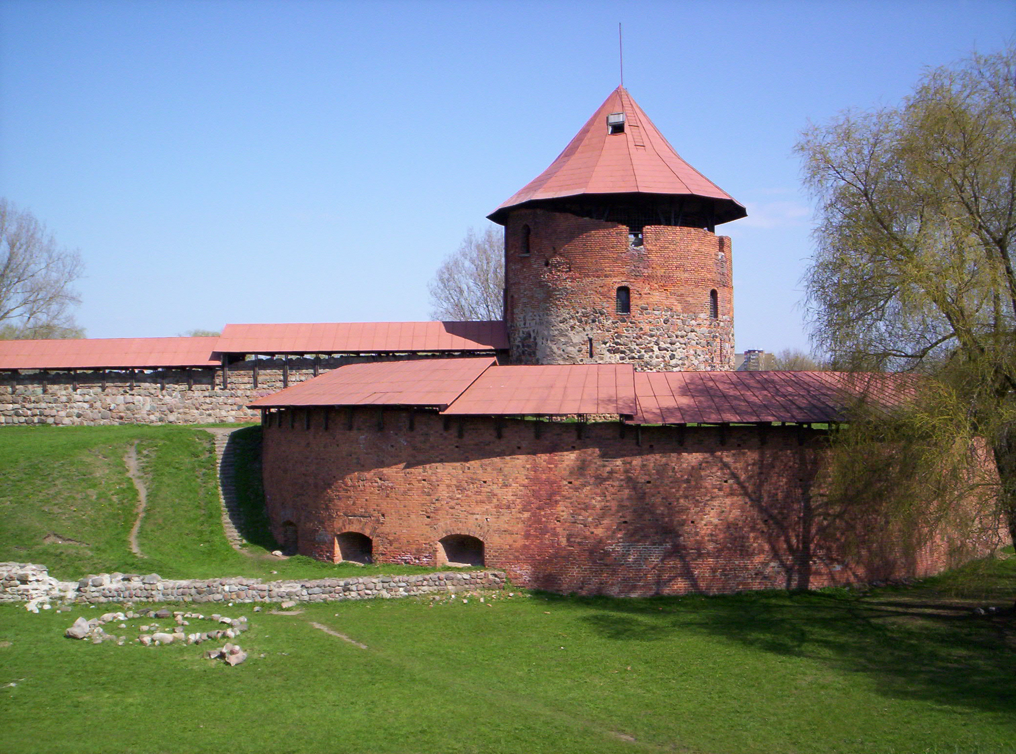 The castle in Kaunas (Lithuania).